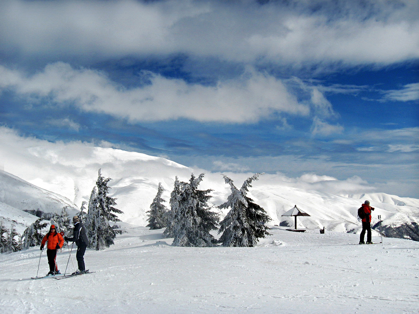 Stara Planina (en. Old mouintain),Eastern Serbia